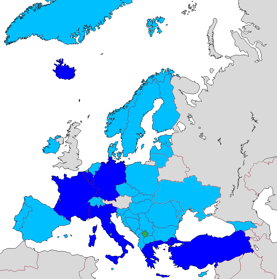 Members countries of the Council of Europe Development Bank.